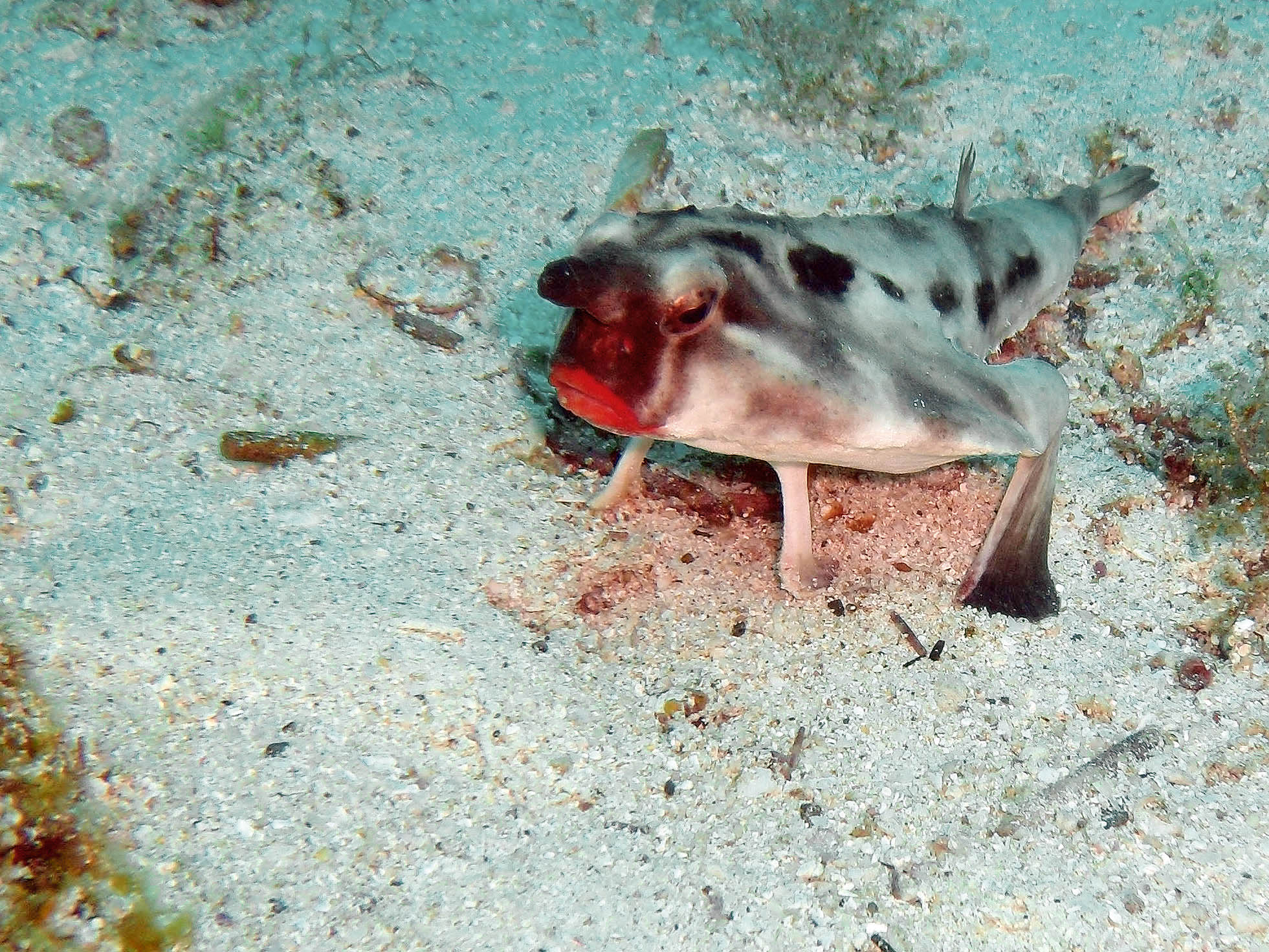 Red-lipped Batfish (Ogcocephalus darwini), photo from the Galapagos (the species is also found off Peru).